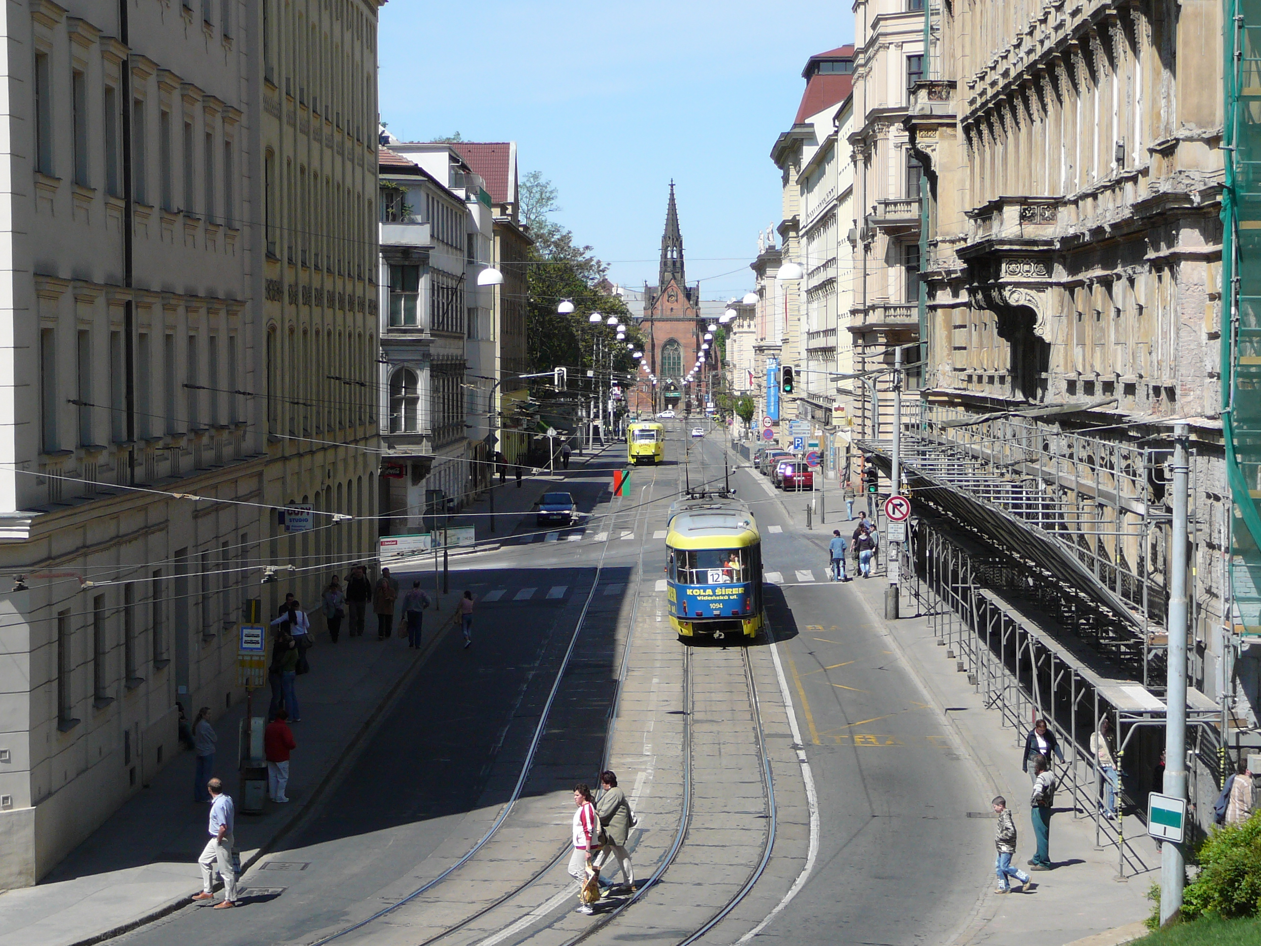 Husova street from Petrov in Brno (CZE)